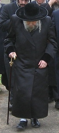 Ferencz Lőwy, Grand Rebbe of the Tosh (Hasidic dynasty), leads his hasidim in Nyírtass, 2005; cropped from original PD-file uploaded as fair use.